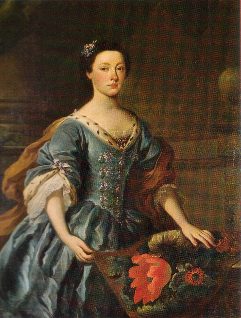 Portrait of Jane Allgood of Nunwick Hall, Northumberland with an embroidery of an anemone and tulips worked in long-and-short stitch, part of a set of six chair covers and two screens still extant (though much faded) at Nunwick Hall.